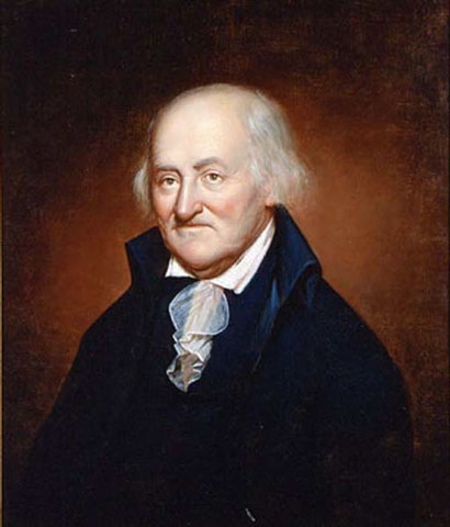 Miniature painted after Gadsden's death in 1805